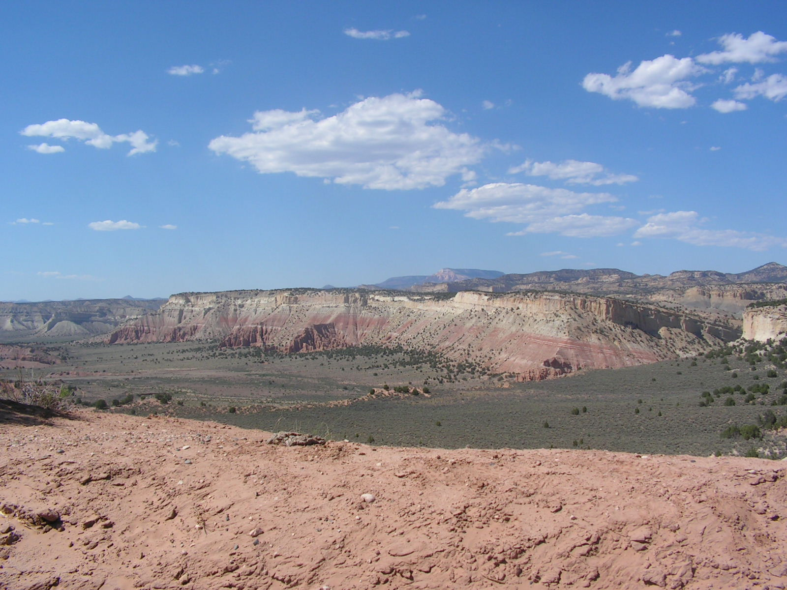 Grand Staircase-Escalante National Monument, Utah. Approximately fifteen miles south of Cannonville on Cottonwood Canyon Road.